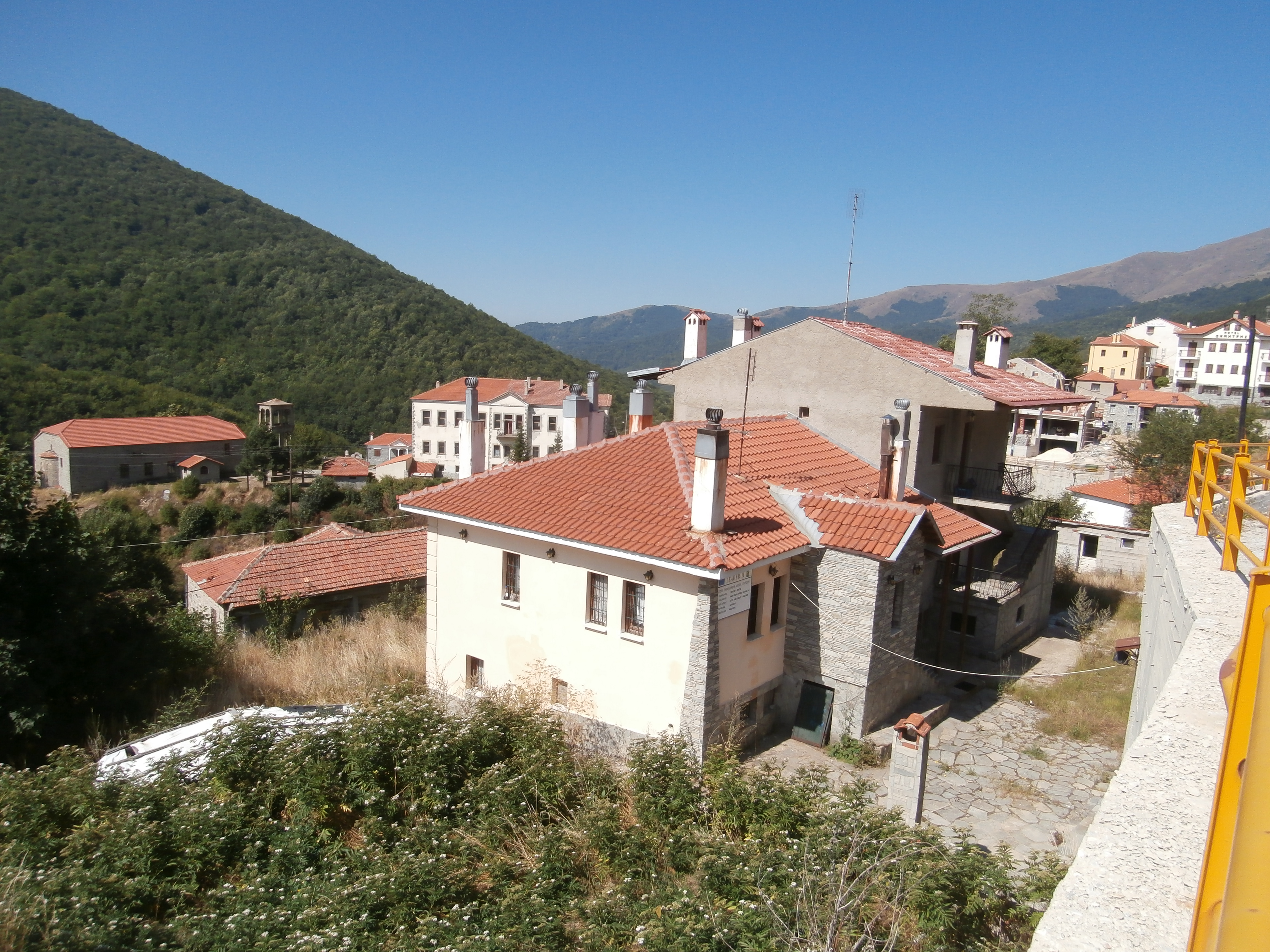 Pisoderi, panoramic view